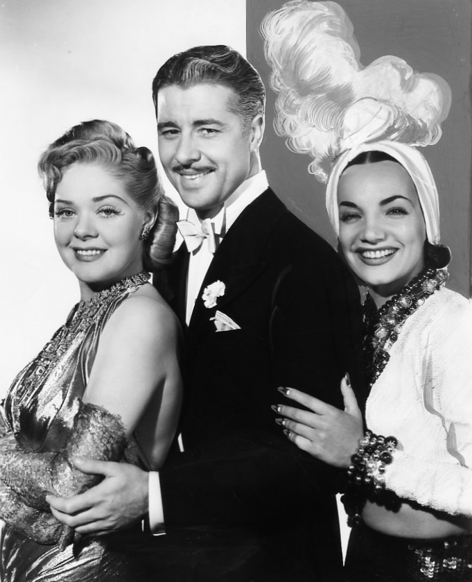 Publicity still of Don Ameche, Alice Faye, and Carmen Miranda for the film That Night in Rio (1941), date-stamped 4-8-41 on the reverse.